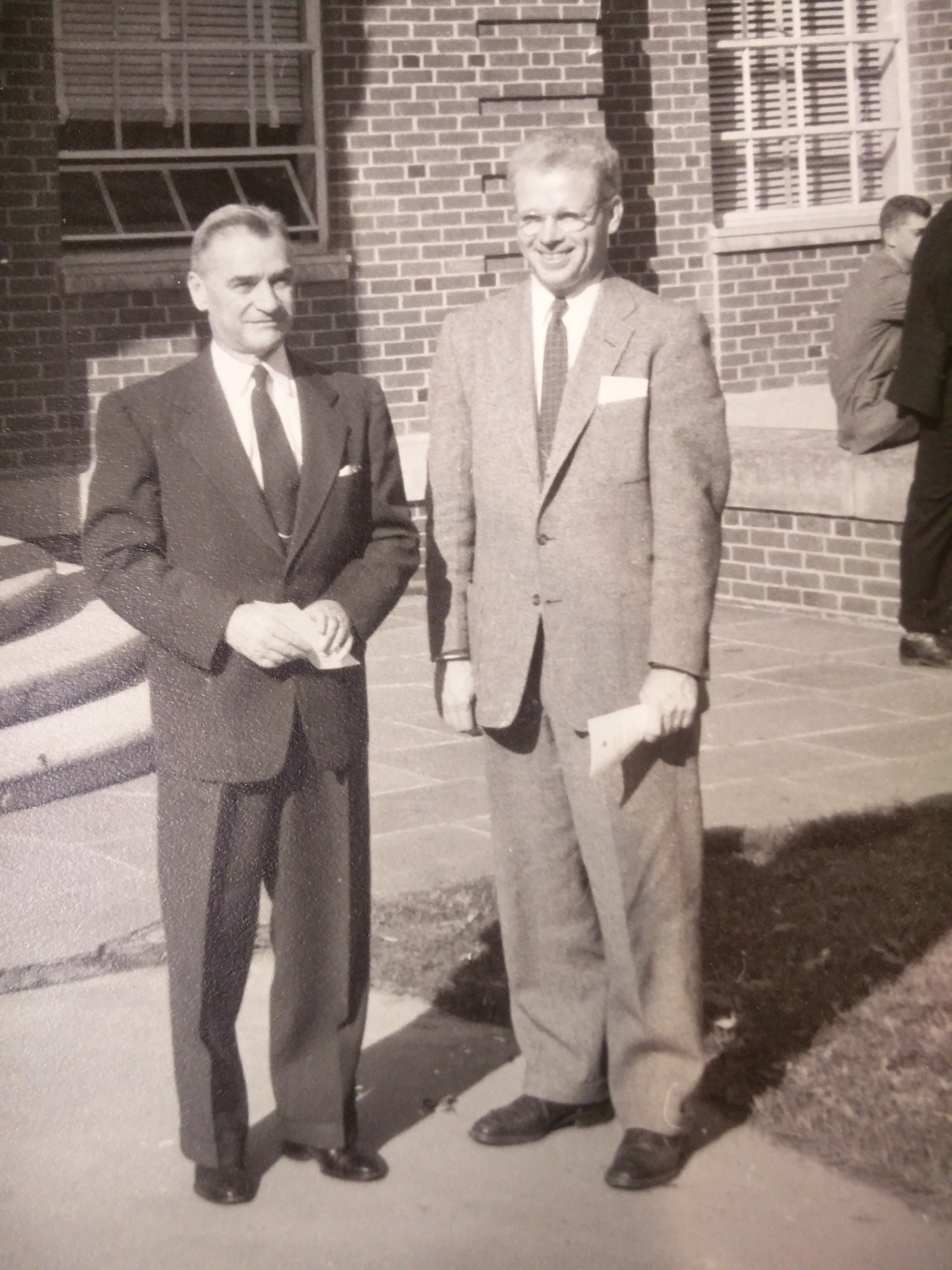 A photo of W. J. Seeley (left), Dean of Duke University's Edmund T. Pratt Jr. School of Engineering, and unknown colleague posing together.